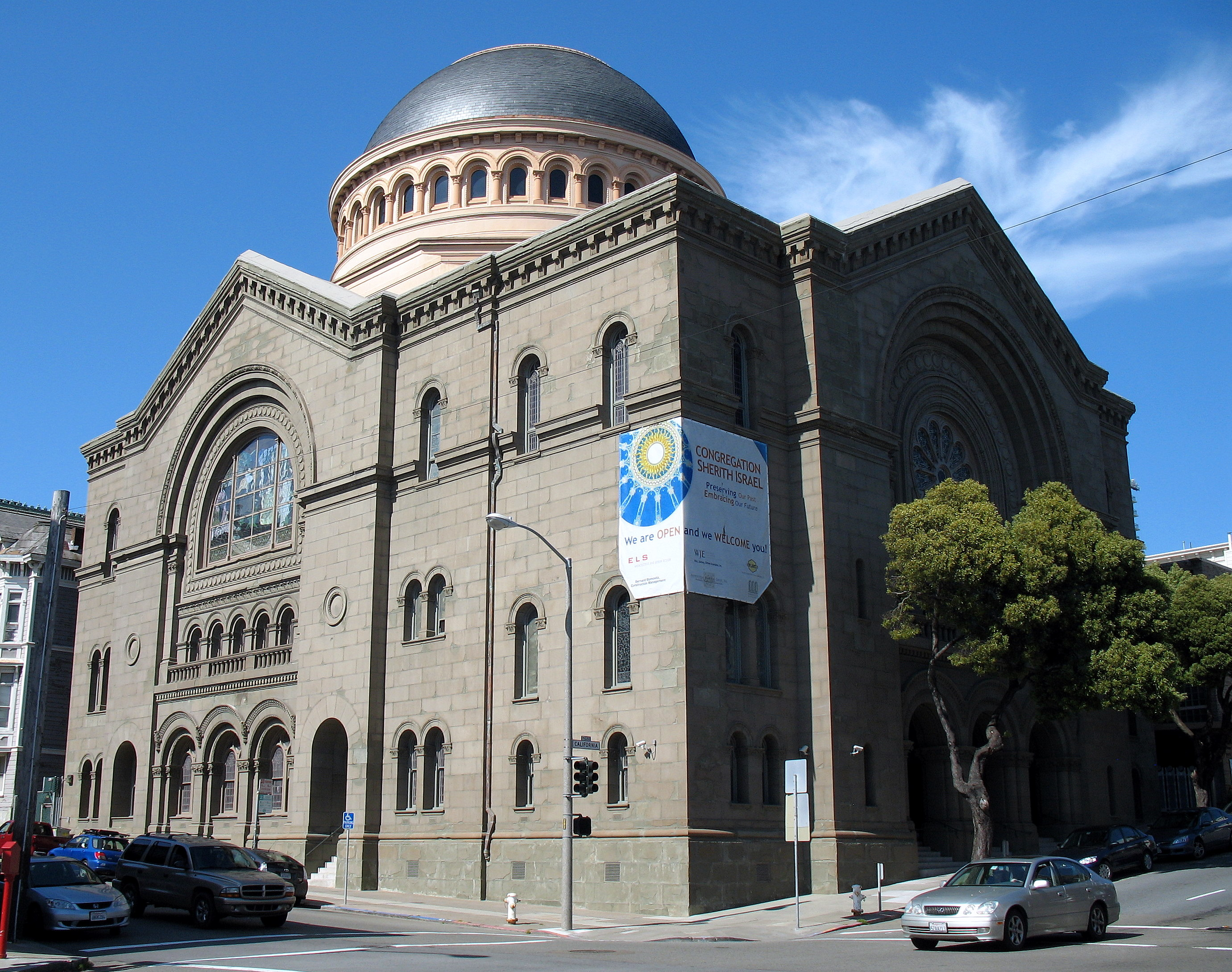 National Register of Historic Places listings in San Francisco, California. Temple Sherith Israel, 2266 California St., San Francisco, California